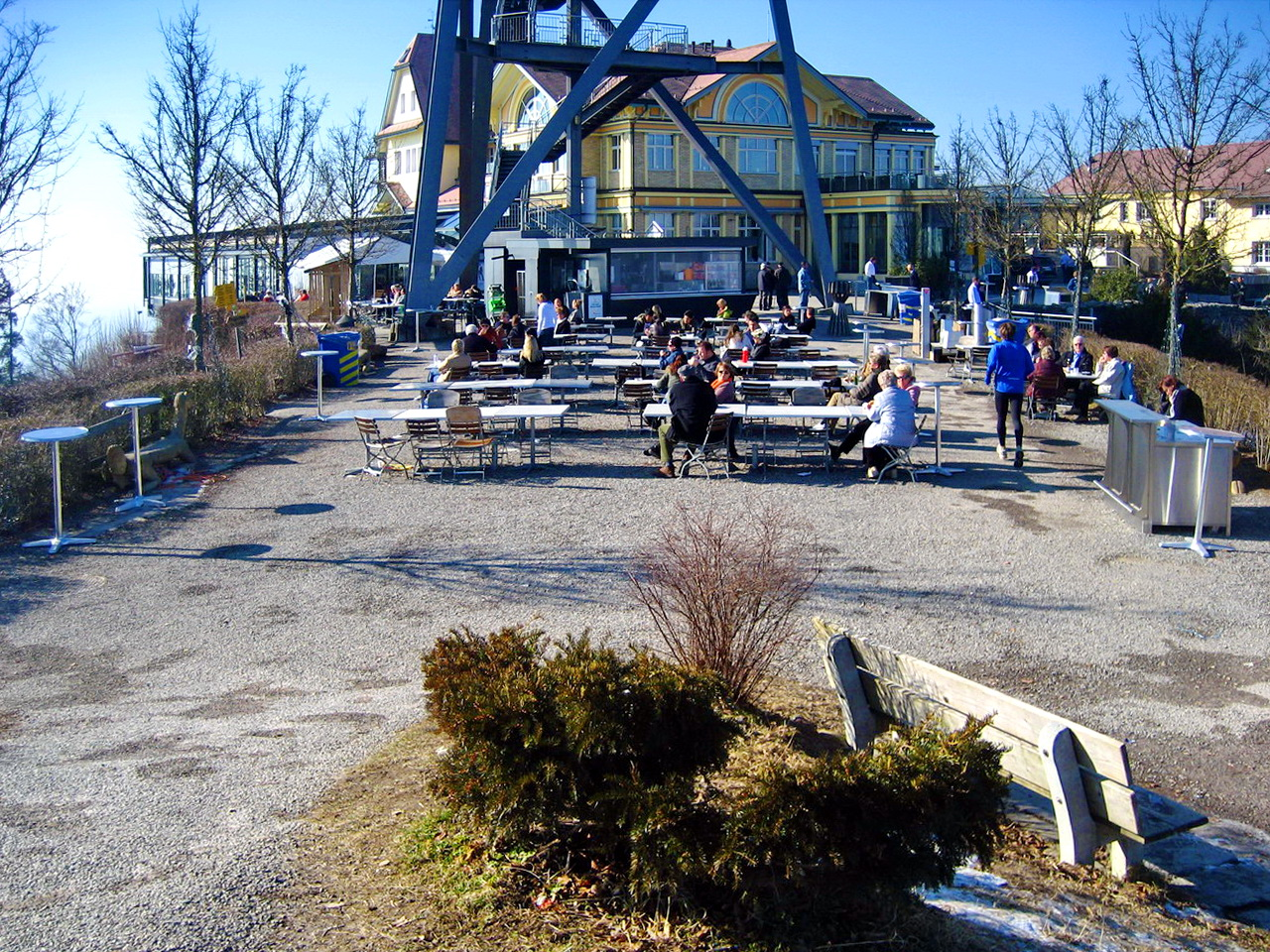 Zürich - Uetliberg : Uetliberg Uto Kulm plateau, the location of a former Helvetiic Oppidum respectively medieval Uetliburg castle.